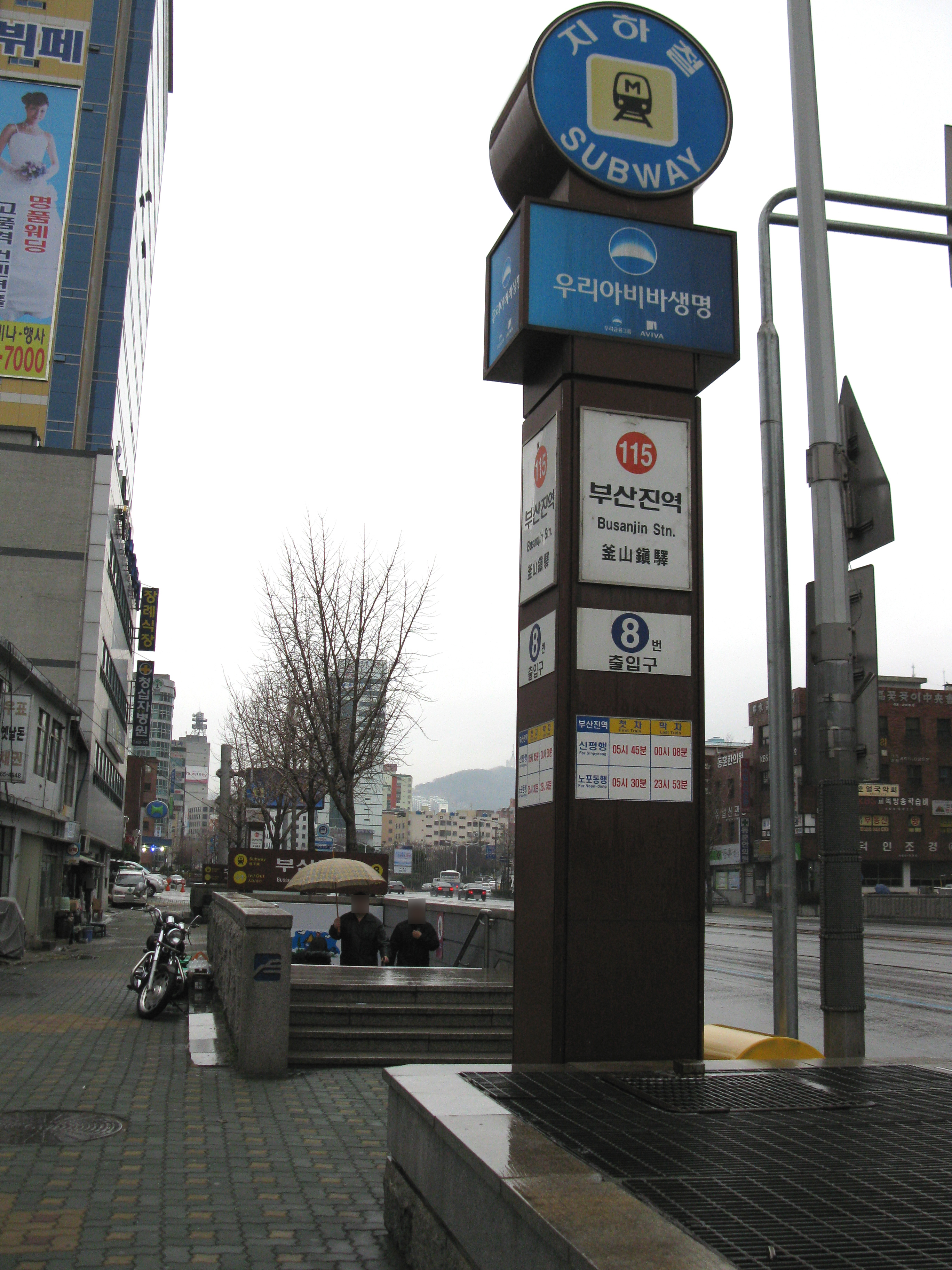 Busanjin Station no.8 entrance (Busan Subway Line 1)